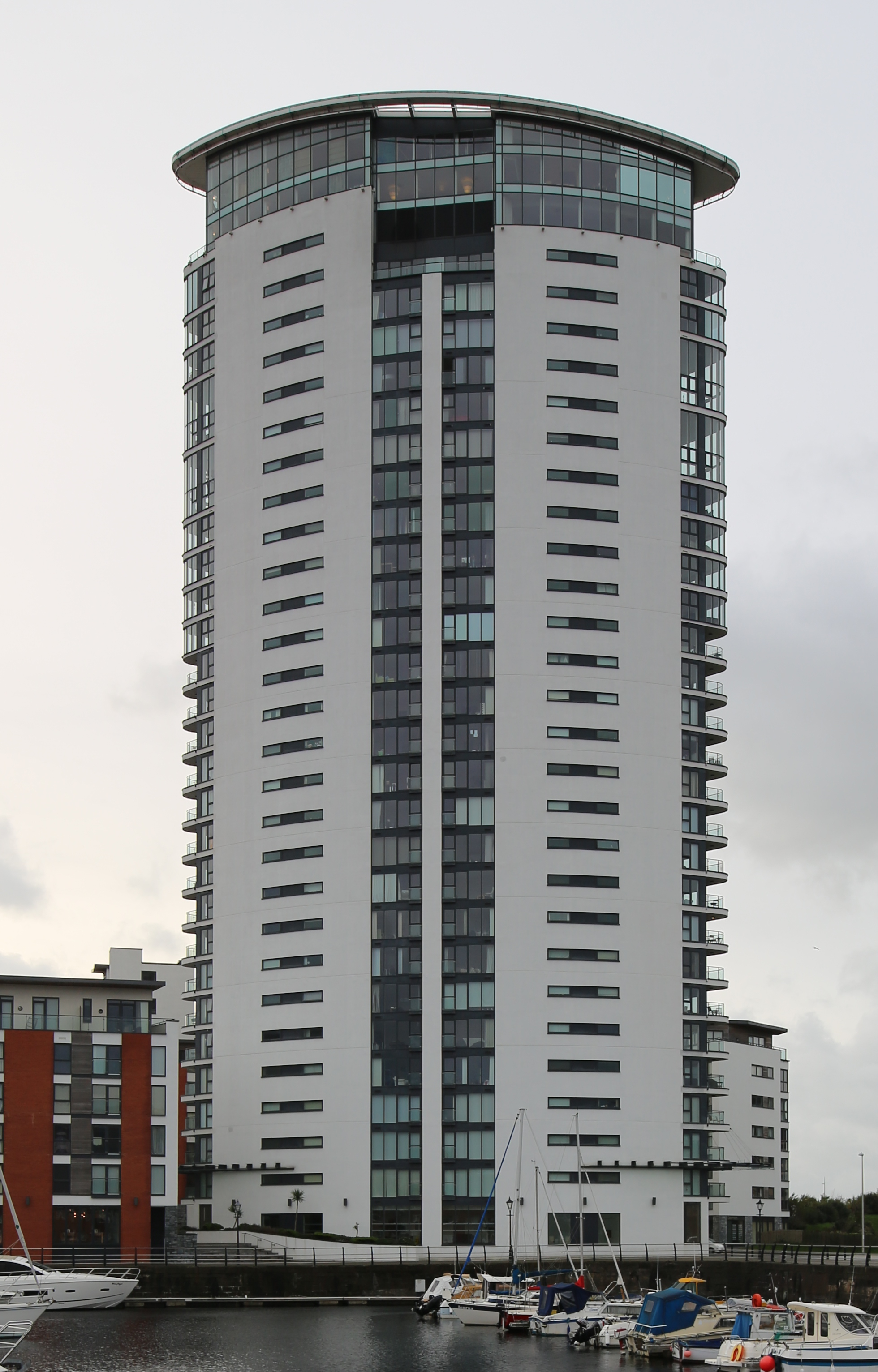 Photo of The Tower, Meridian Quay Swansea